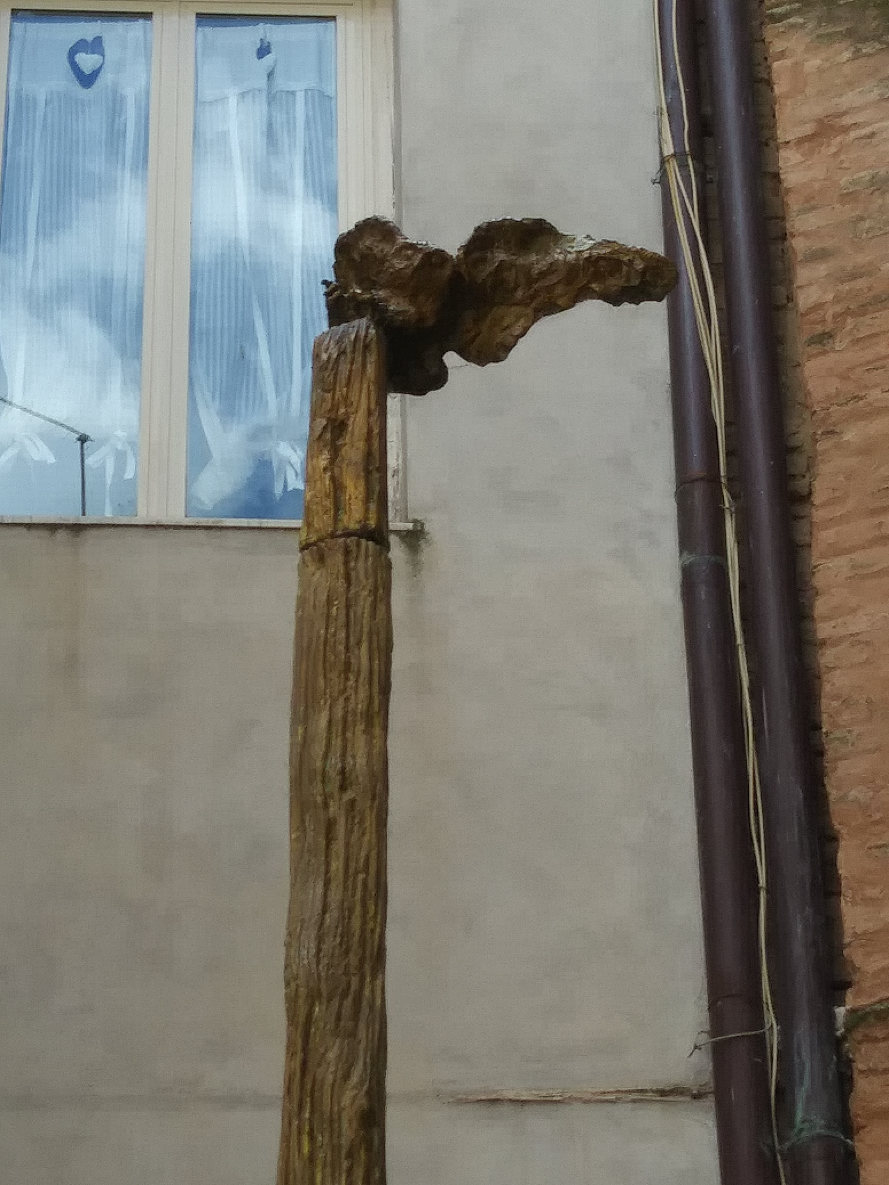 The fountain for the Civeta contrada in Siena